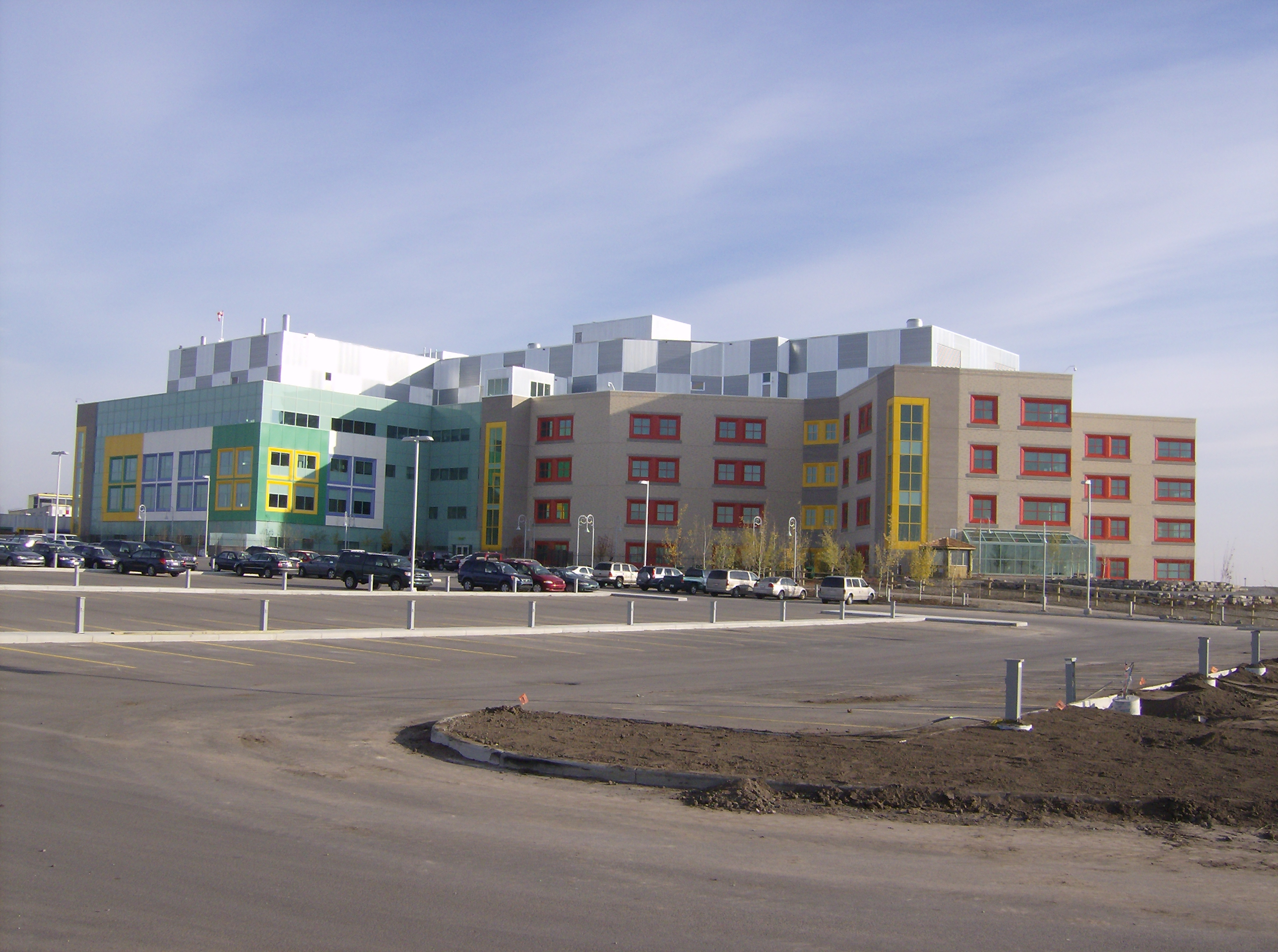 Alberta Children's Hospital in Calgary, Alberta. This is at the new location (as of 2006) of the hospital.